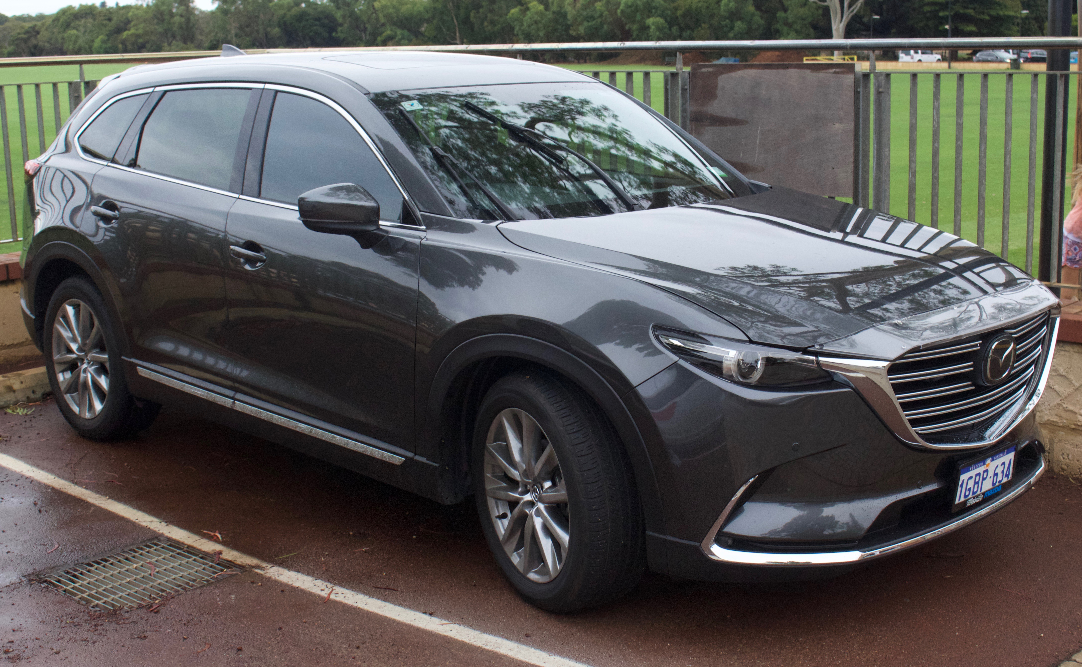 2016 Mazda CX-9 (TC MY16) Azami 2WD wagon. Photographed in Swanbourne, Western Australia, Australia.